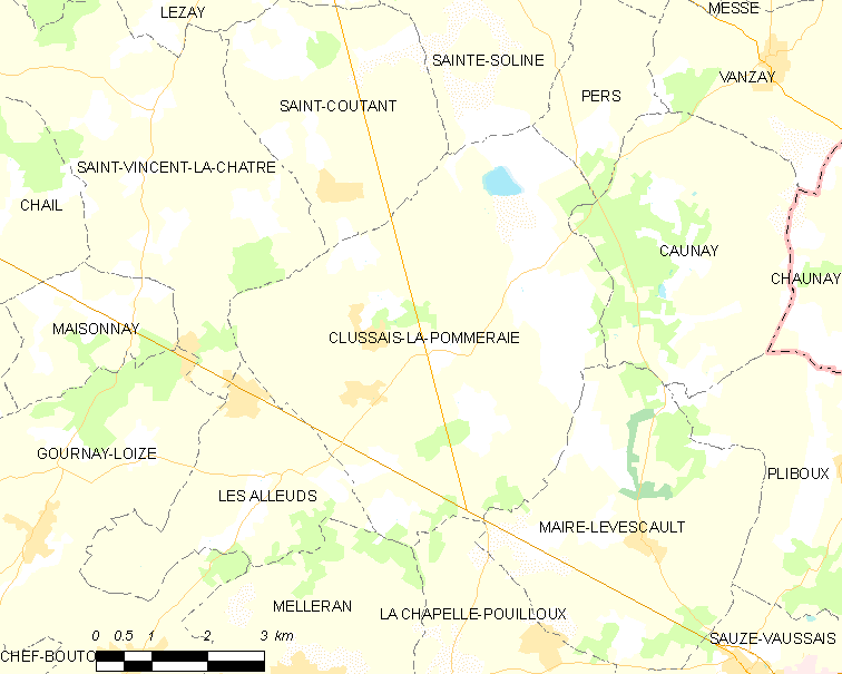 Map of French municipality Clussais-la-Pommeraie